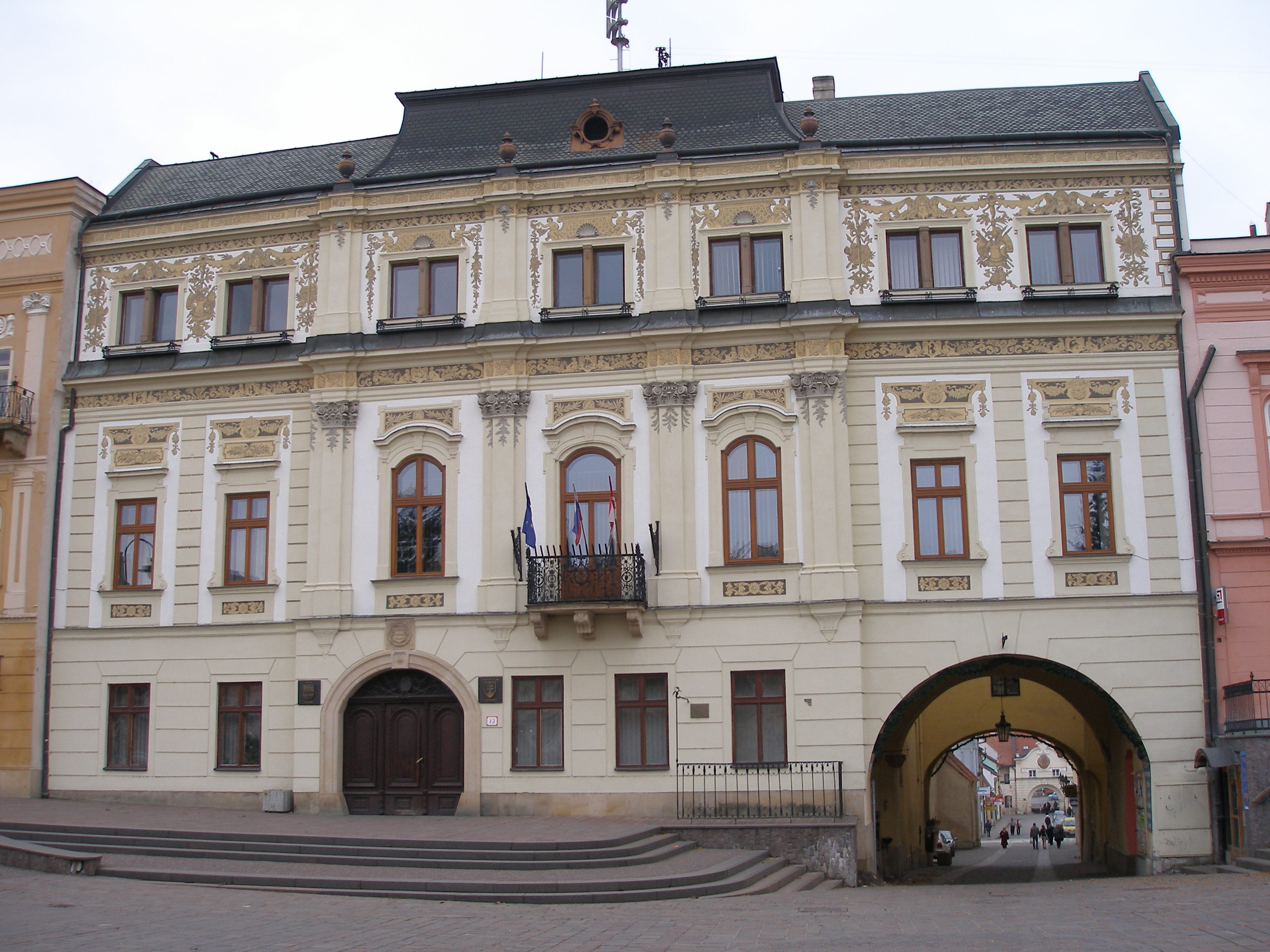 Mesto Prešov pamätihodnosti budova mestskej radnice. This medium shows the protected monument with the number 707-3240/0 (other) in the Slovak Republic. / Město Prešov pamětihodnosti / Miasto Preszów zabytki